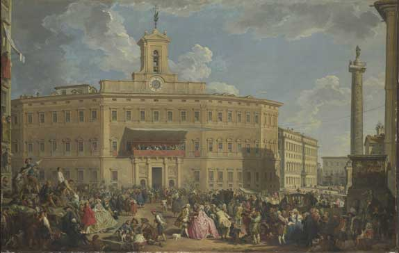 Palazzo Montecitorio by the artist Giovanni Paolo Pannini, c. 1747, from [1]